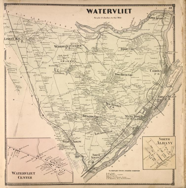 Map of the town of Watervliet in 1866. Includes modern-day town of Colonie, the cities of Cohoes and Watervliet, and the North Albany neighborhood of the city of Albany.